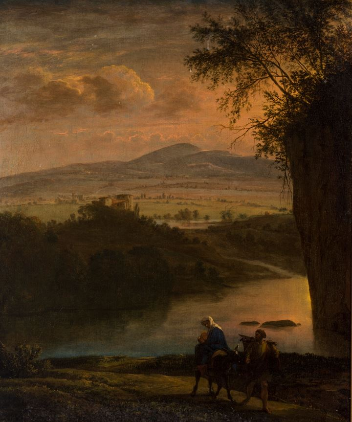 "Flight into Egypt" was painted by Jan Asselijn in 1640 c.[1]